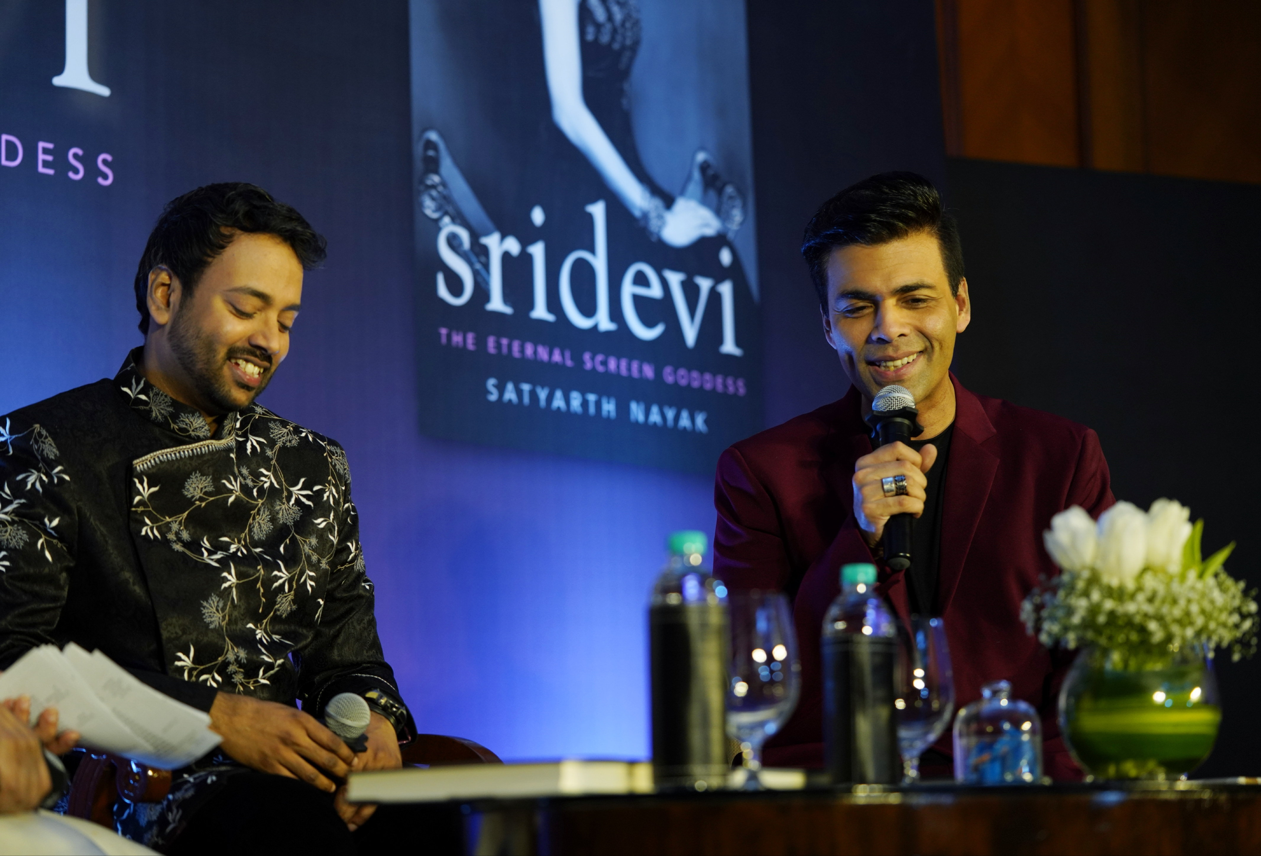 Satyarth Nayak with Karan Johar launching the Sridevi biography